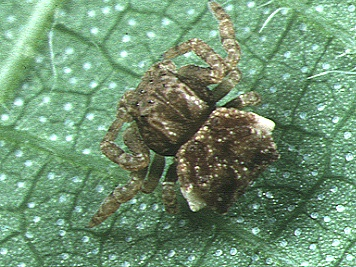 female Boliscus tuberculatus from Okinawa.